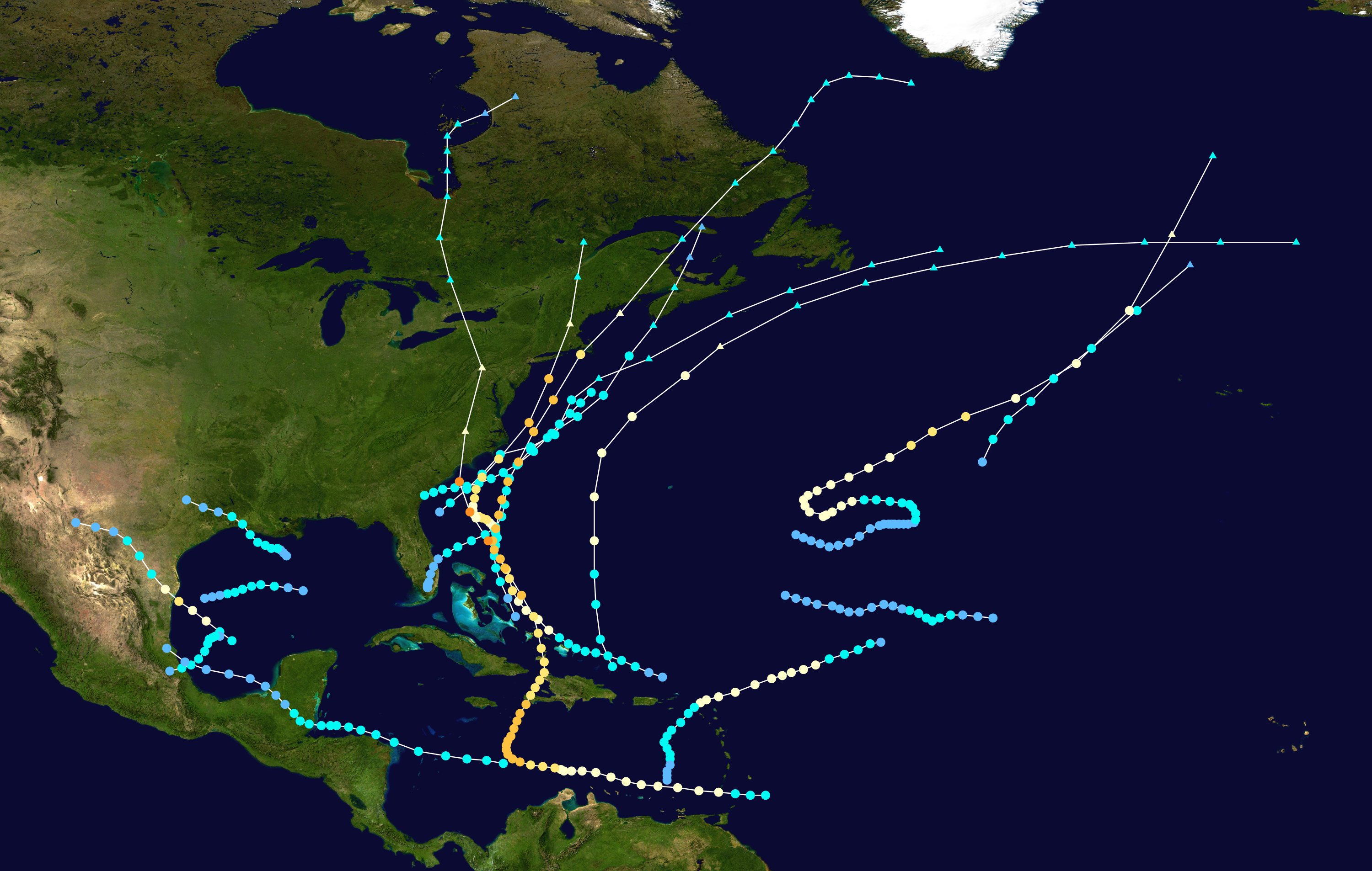 This map shows the tracks of all tropical cyclones in the 1954 Atlantic hurricane season. The points show the location of each storm at 6-hour intervals. The colour represents the storm's maximum sustained wind speeds as classified in the Saffir-Simpson Hurricane Scale (see below), and the shape of the data points represent the nature of the storm. Saffir–Simpson hurricane wind scale Tropical depression≤38 mph≤62 km/h Category 3111–129 mph178–208 km/h Tropical storm39–73 mph63–118 km/h Category 4130–156 mph209–251 km/h Category 174–95 mph119–153 km/h Category 5≥157 mph≥252 km/h Category 296–110 mph154–177 km/h Unknown Storm typeTropical cycloneSubtropical cycloneExtratropical cyclone / Remnant low / Tropical disturbance